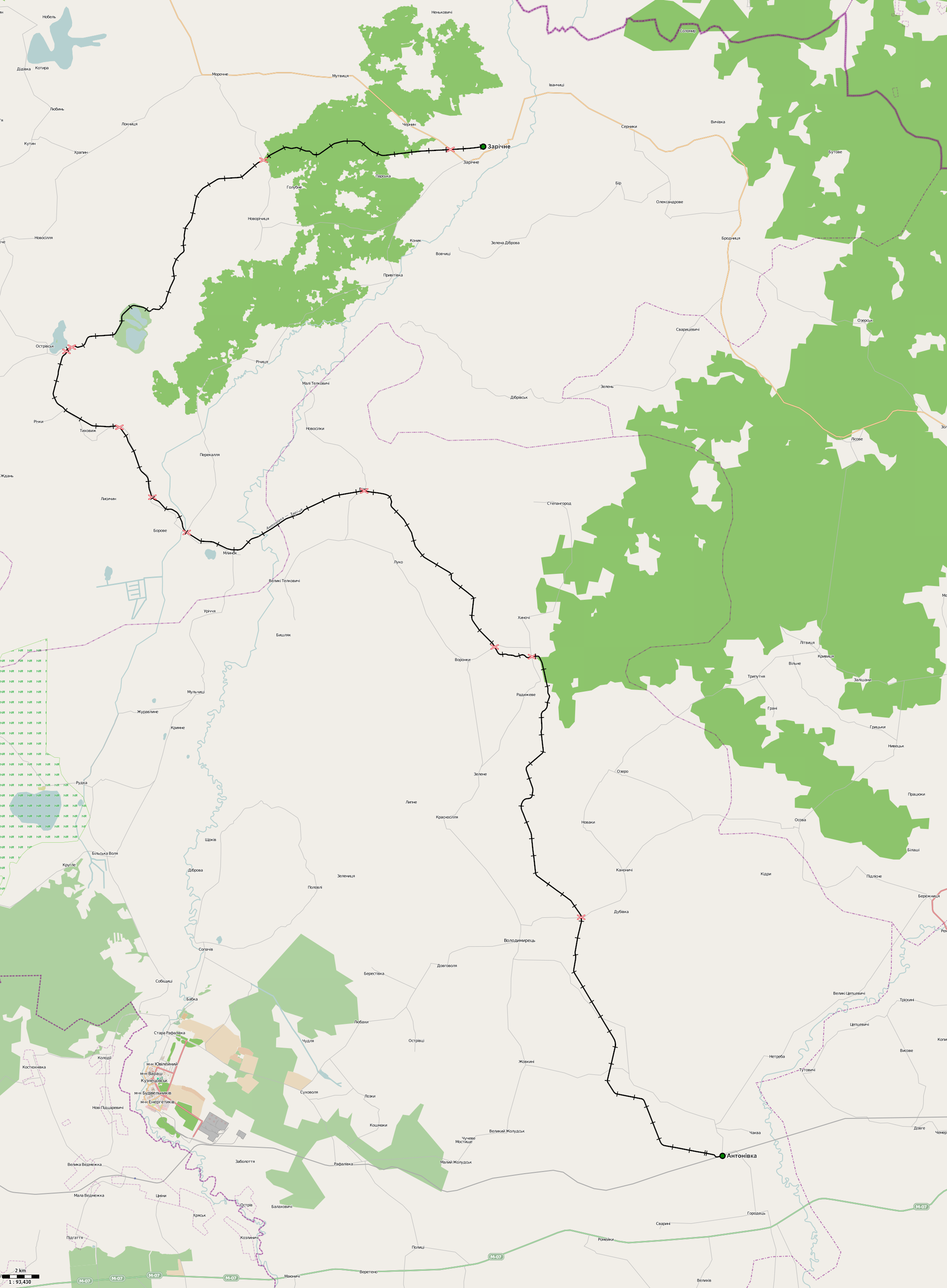 Map of narrow gauge railway Antonowka - Zarechnoye